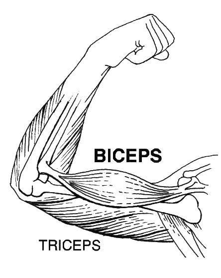 line art drawing